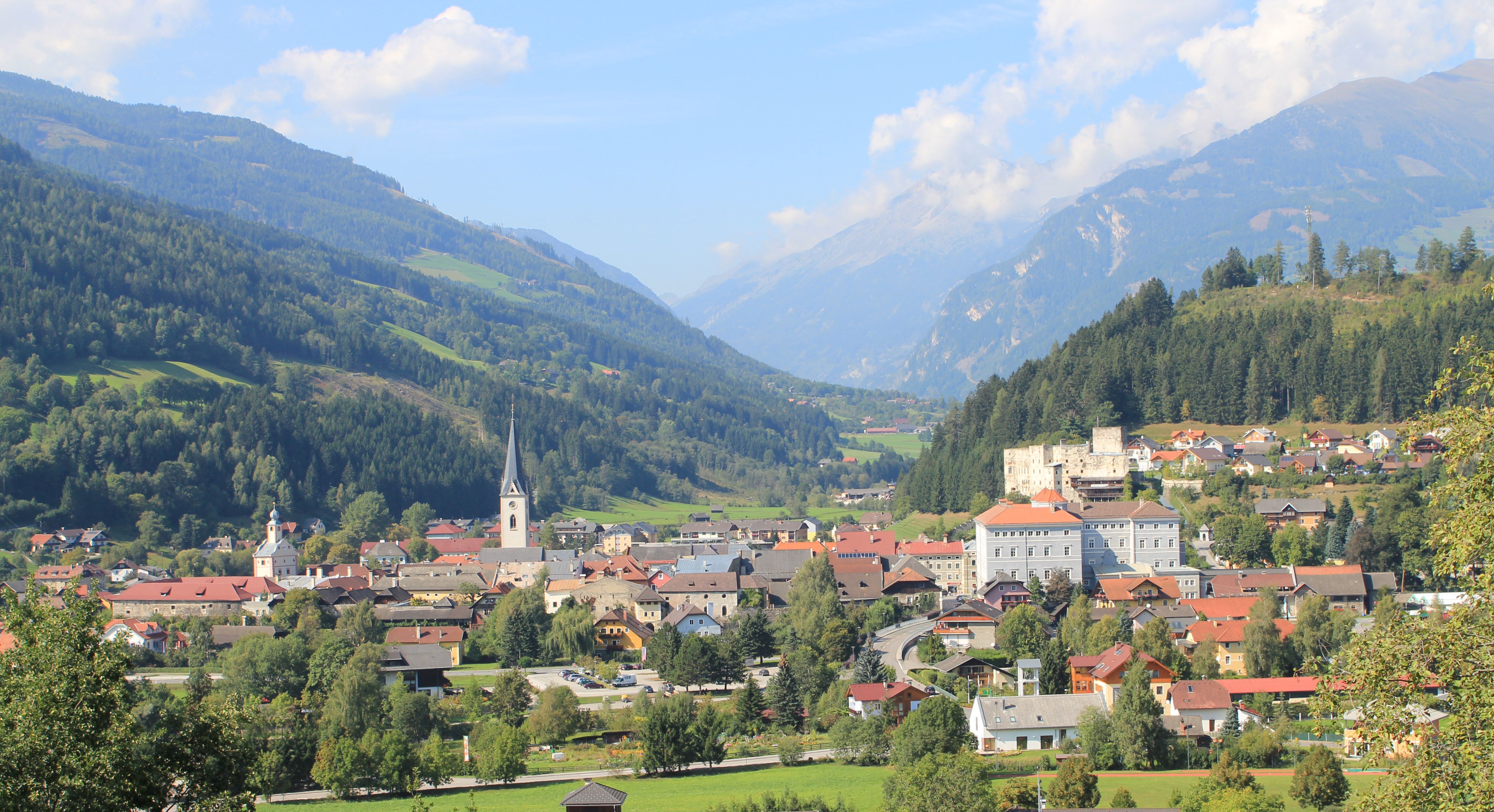 Gmünd view from the east